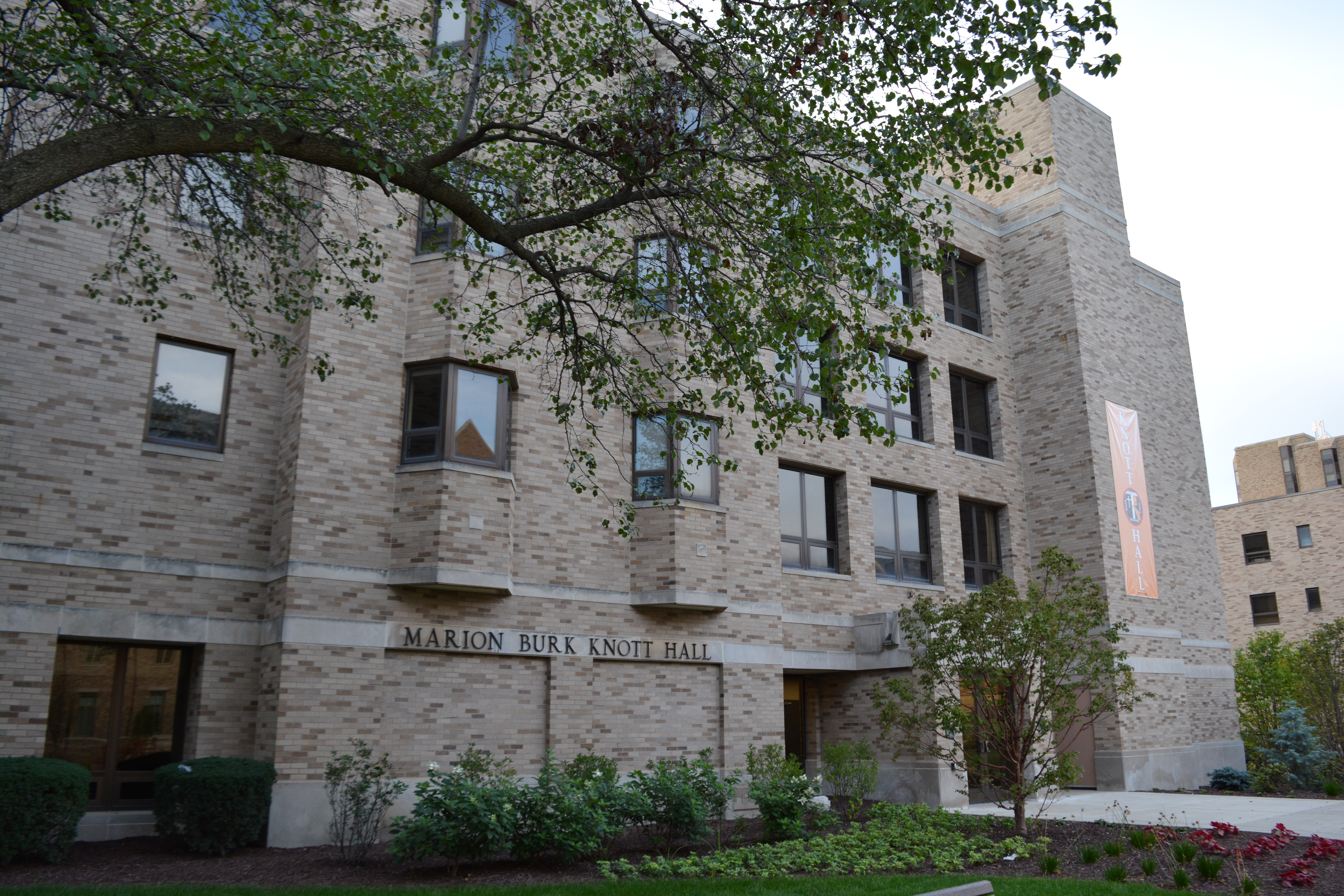 University of Notre Dame